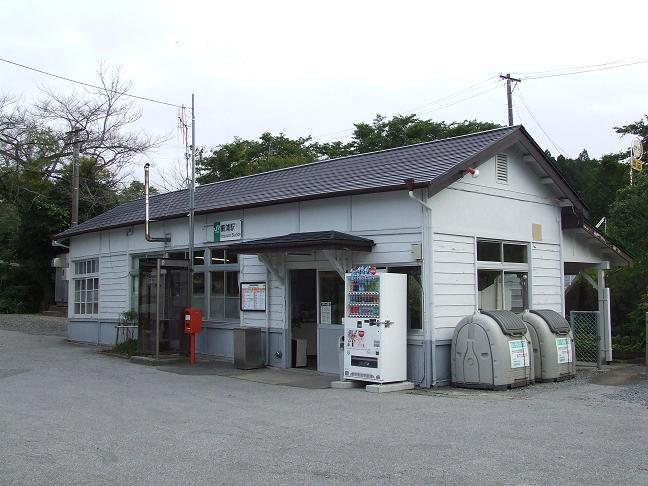 Hosoura Station